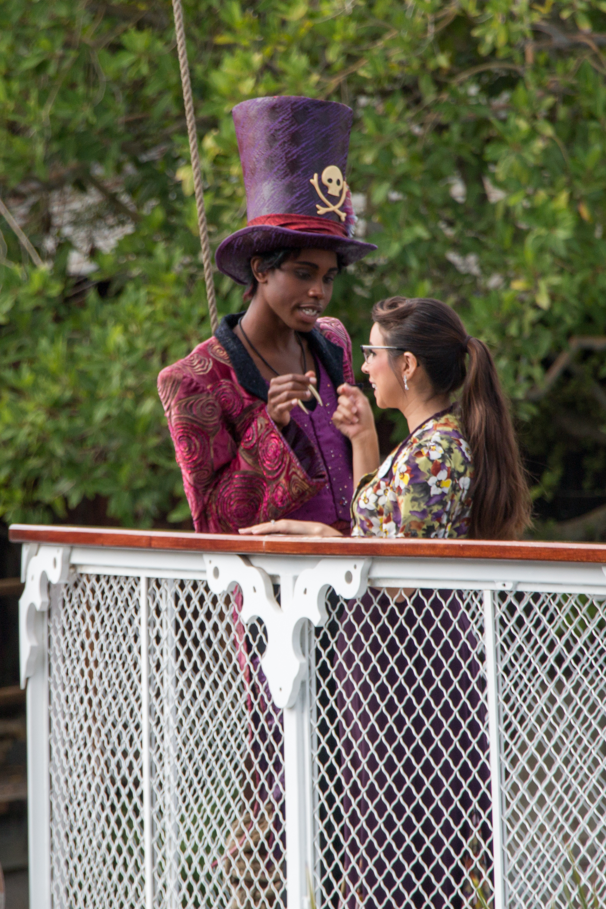 Dr. Facilier hanging out on the Mark Twain Riverboat with a cast member at Disneyland.